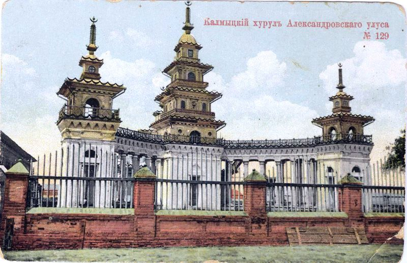 This old postcard image was produced sometime and somewhere in Czarist Russia. It depicts a Buddhist temple built to honor the Kalmyk cavalrymen that fought in the War of 1812. Its architectural style is derived from the Kazan Cathedral in St. Petersburg, Russia.